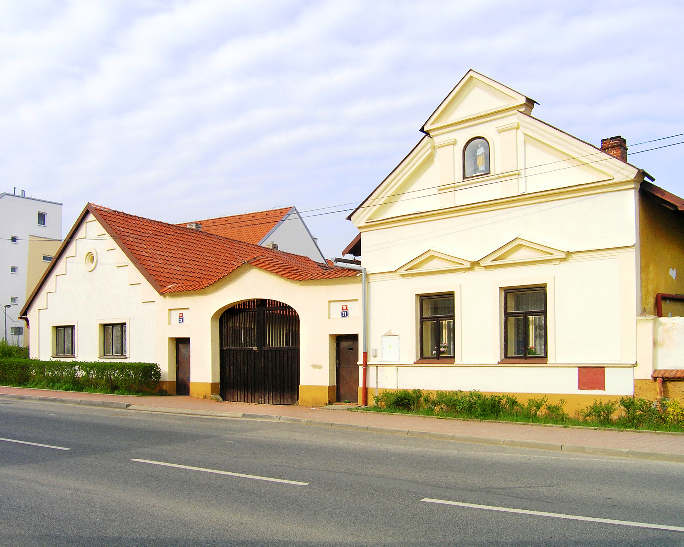 Old farmhouse at Mírová street in Kolovraty, Prague